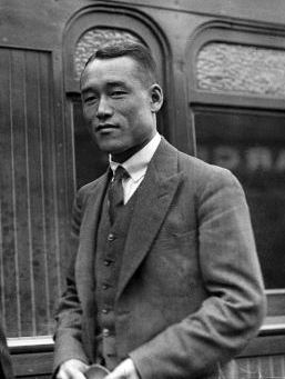 Japanese tennis player Jiro Sato next to a train at Central Station, Sydney with Jack Crawford (not pictured)